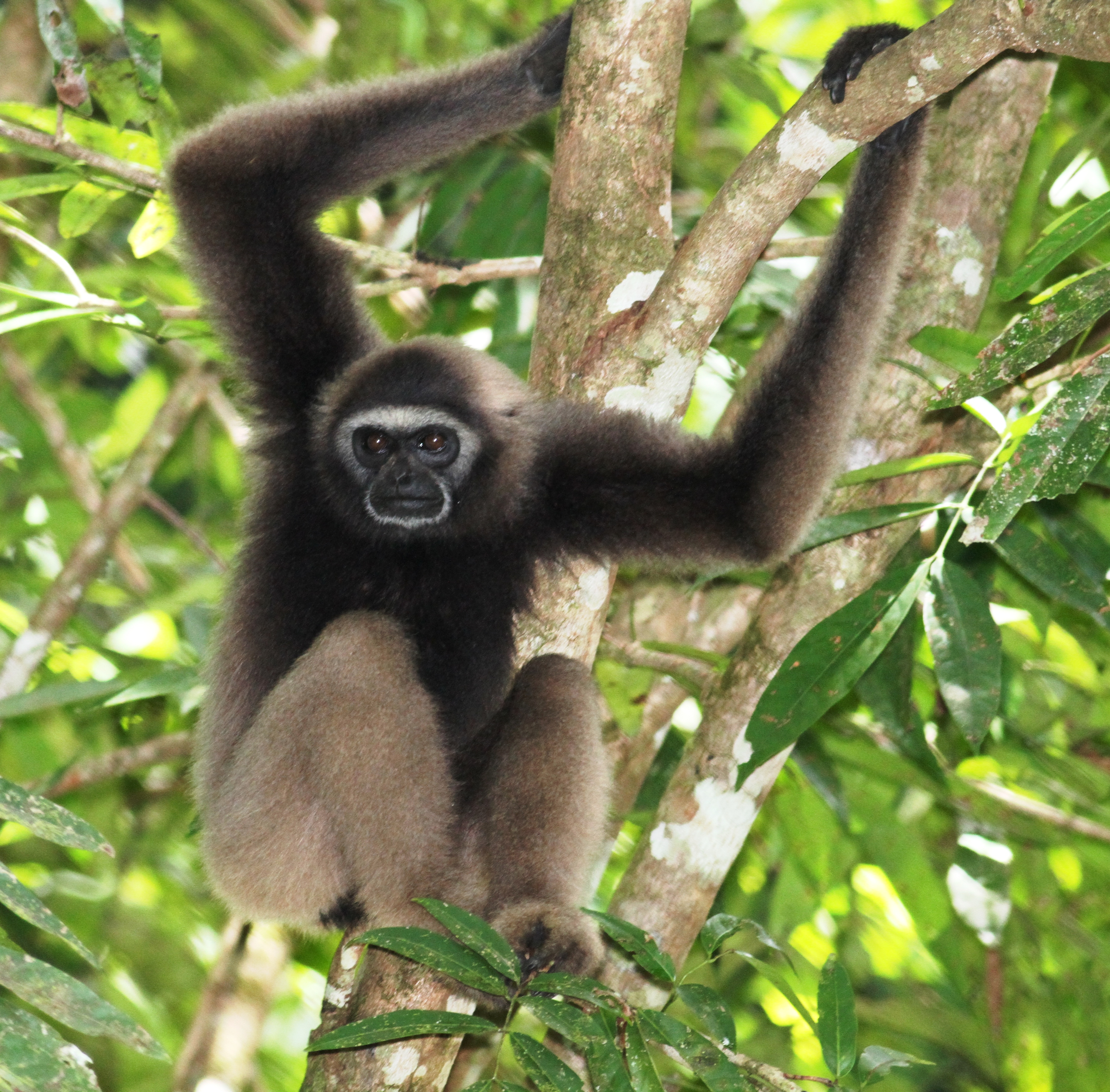 Female North Borneo Gibbon Hylobates funereus at Tabin Wildlife Reserve, Sabah, Malaysia